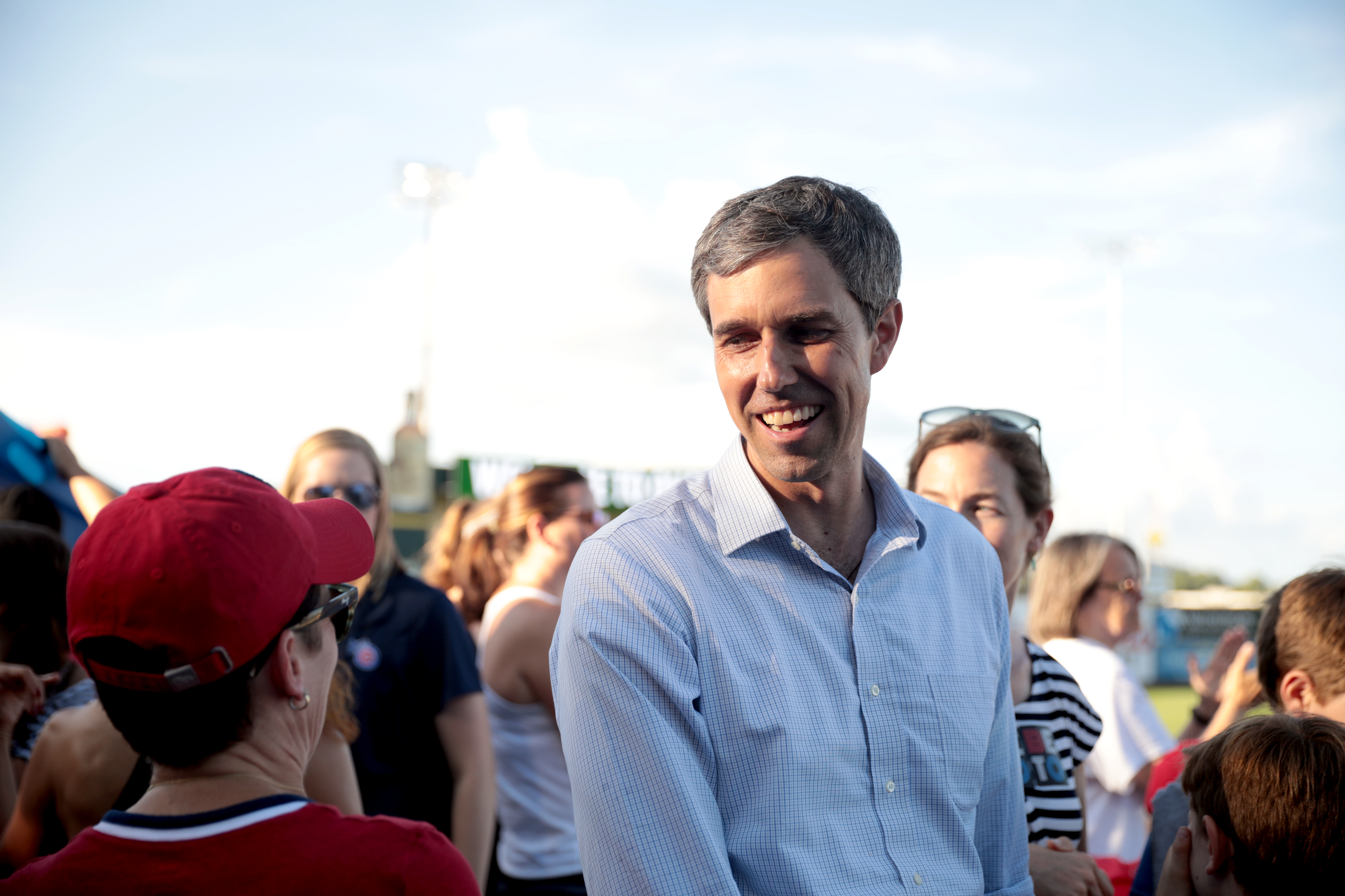 Former U.S. Congressman Beto O'Rourke at the Fourth of July Iowa Cubs game at Principal Park in Des Moines, Iowa.